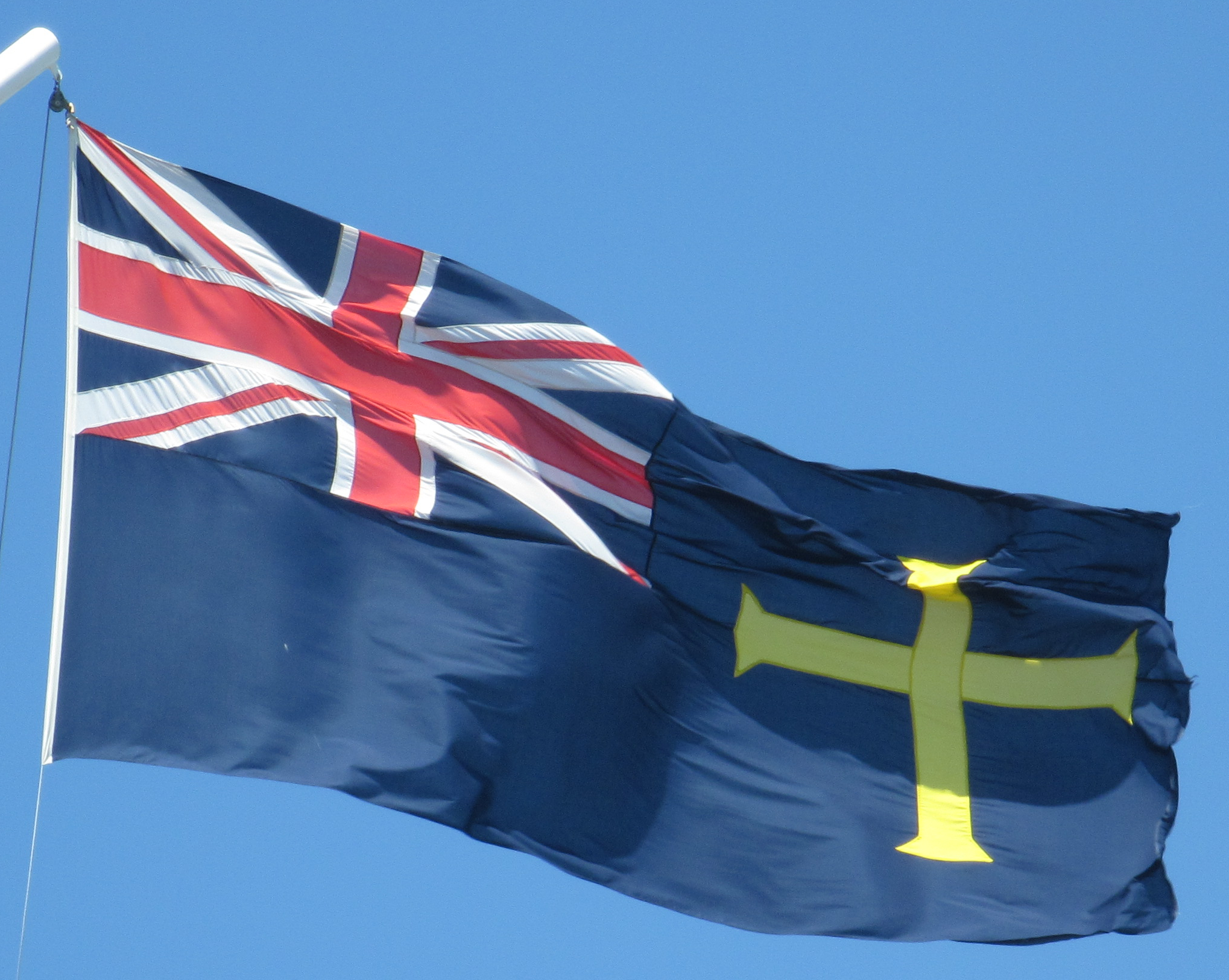 In Guernsey, 4 July 2010